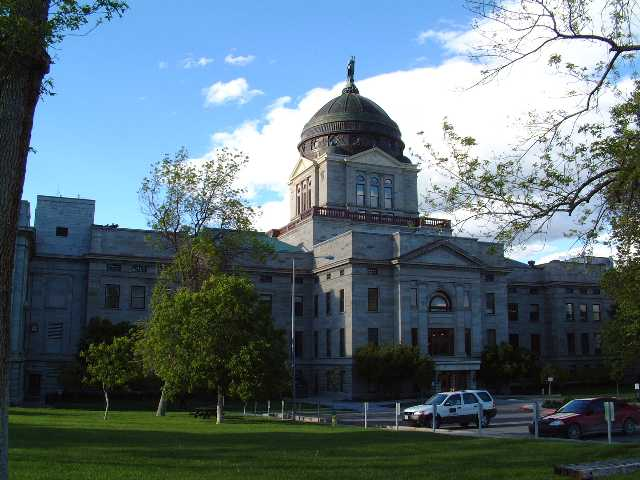 State capitol building of Montana, south view. Taken by the uploader. Detailed information should be displayed below.